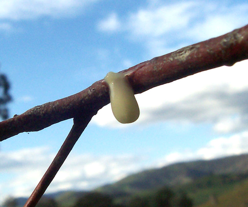 Mistletoe seed as a bird would dispose it Permission is granted to copy, distribute and/or modify this document under the terms of the GNU Free Documentation License, Version 1.2 or any later version published by the Free Software Foundation; with no Invariant Sections, no Front-Cover Texts, and no Back-Cover Texts. Subject to disclaimers. Subject to disclaimers.